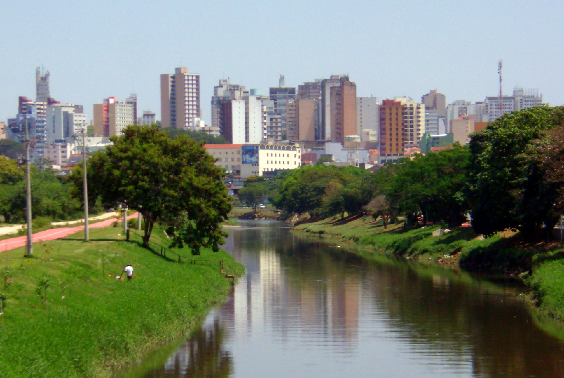 Sorocaba River, Sorocaba, Brazil.